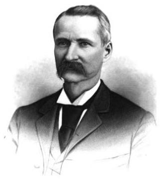 William V. Rinehart. U.S. Army Major in Oregon during the Civil War. Merchant, postmaster in Oregon. Moved to Seattle 1882. Successful realtor and moderately successful politician there.